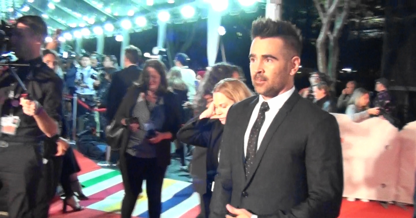 Colin Farrell close-up at the 2018 Toronto International Film Festival.